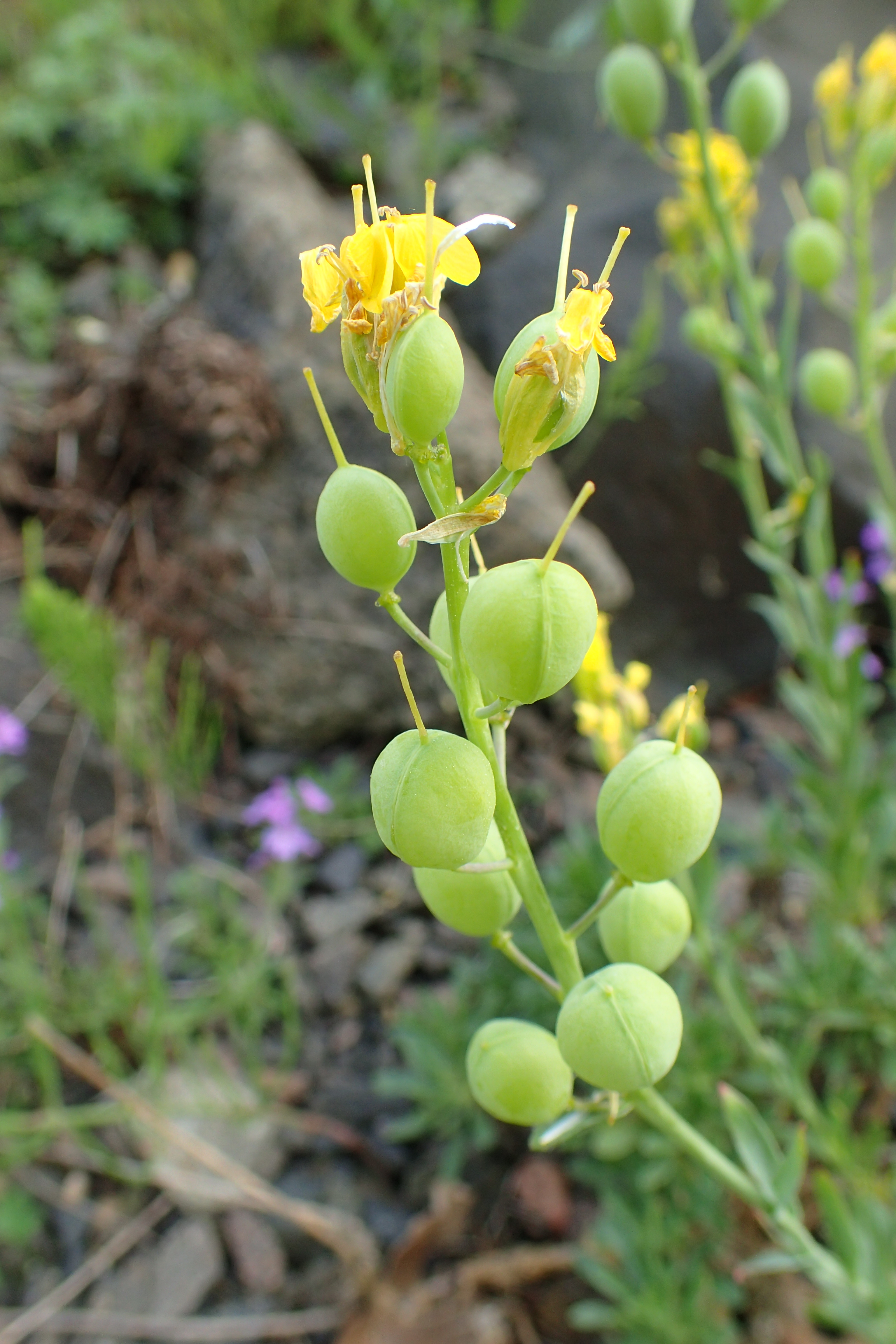 Alyssoides utriculata in the Botanischer Garten, Berlin-Dahlem